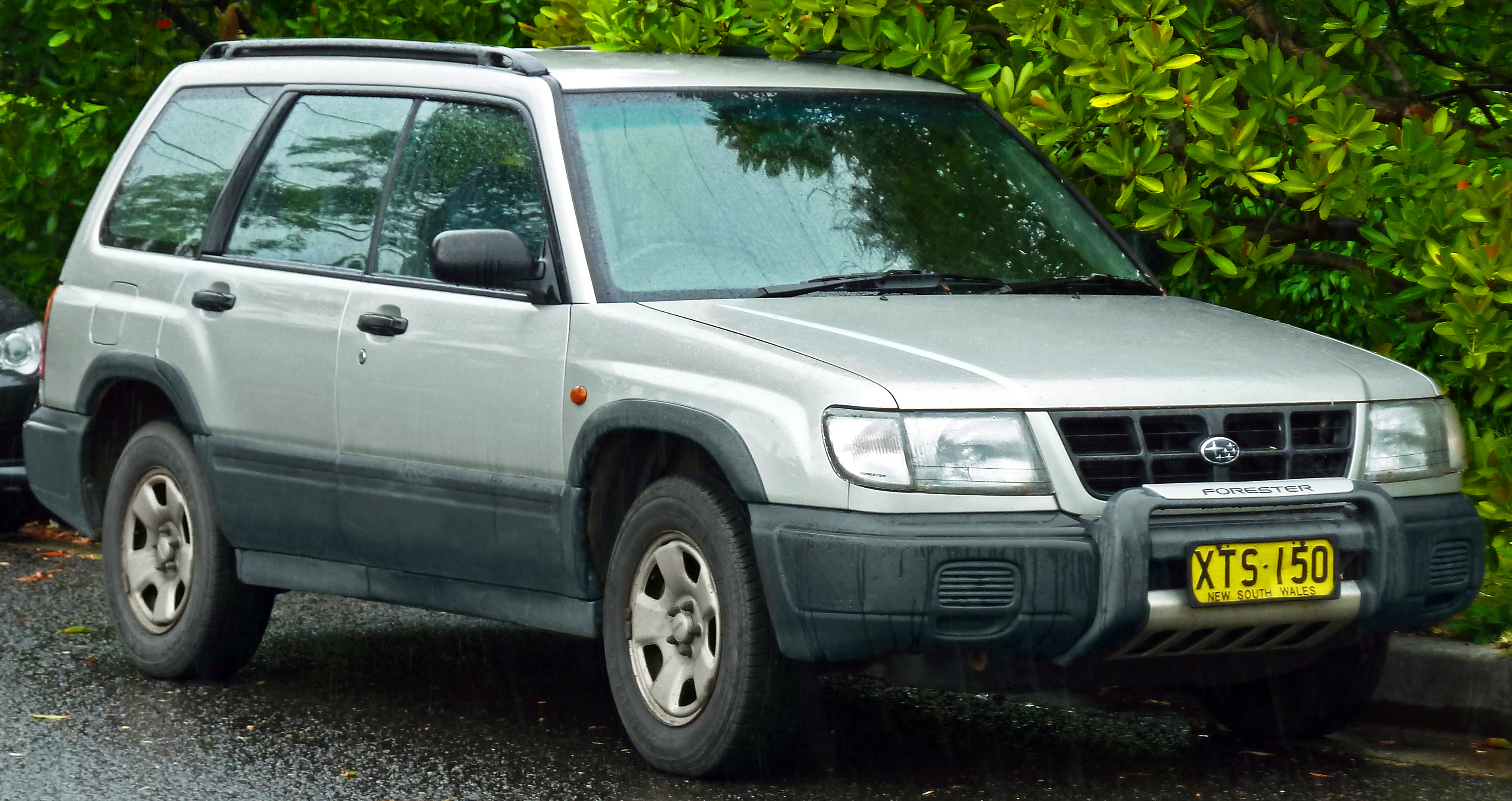 1998 Subaru Forester (SF5) GX wagon. Photographed in Roseville, New South Wales, Australia.